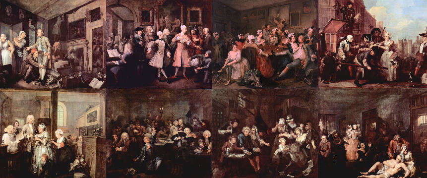 A Rake's Progress.